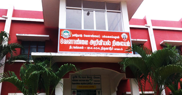 NidamangalamAgriUniversity